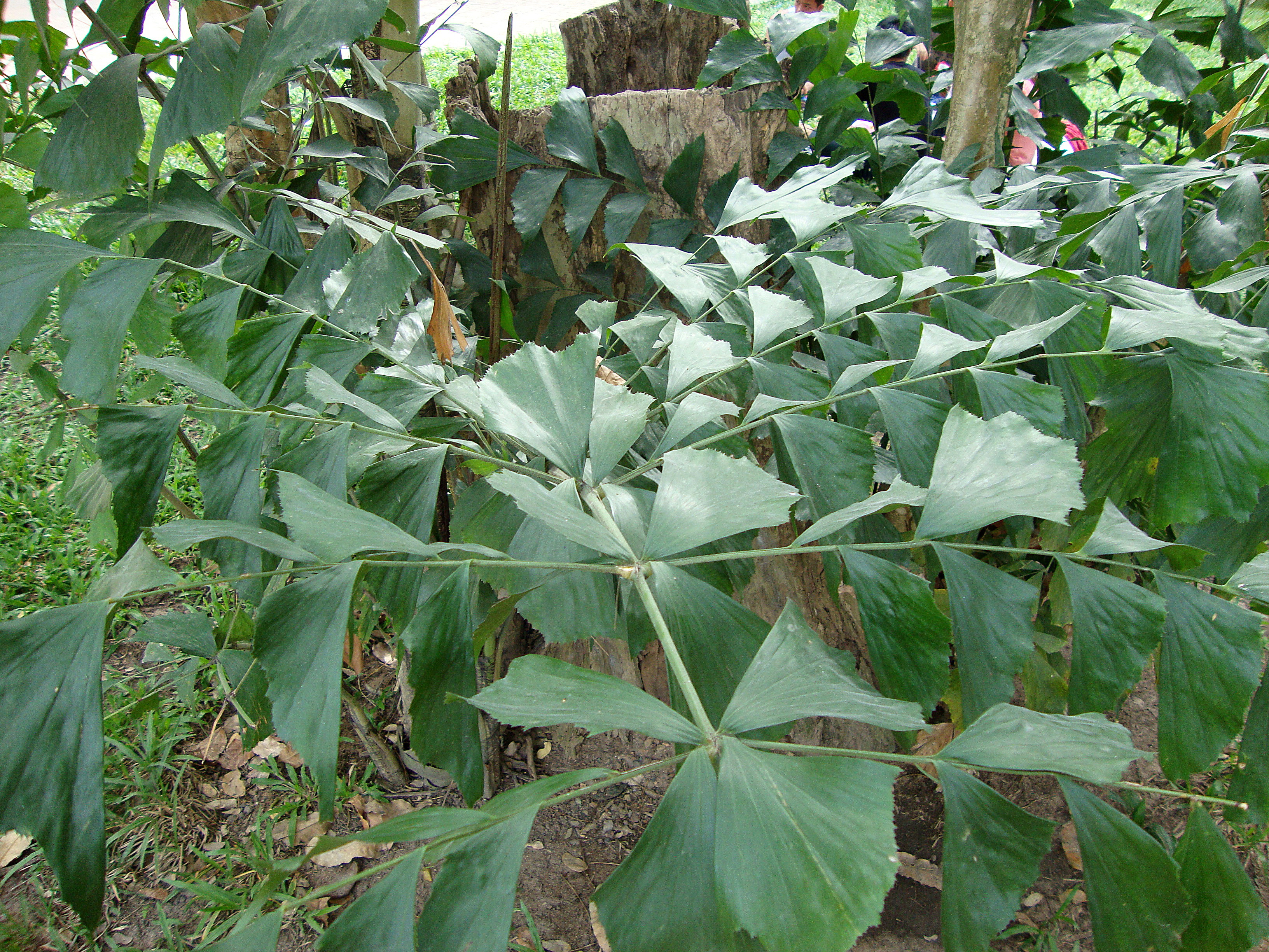 Caryota mitis Lour., 1790